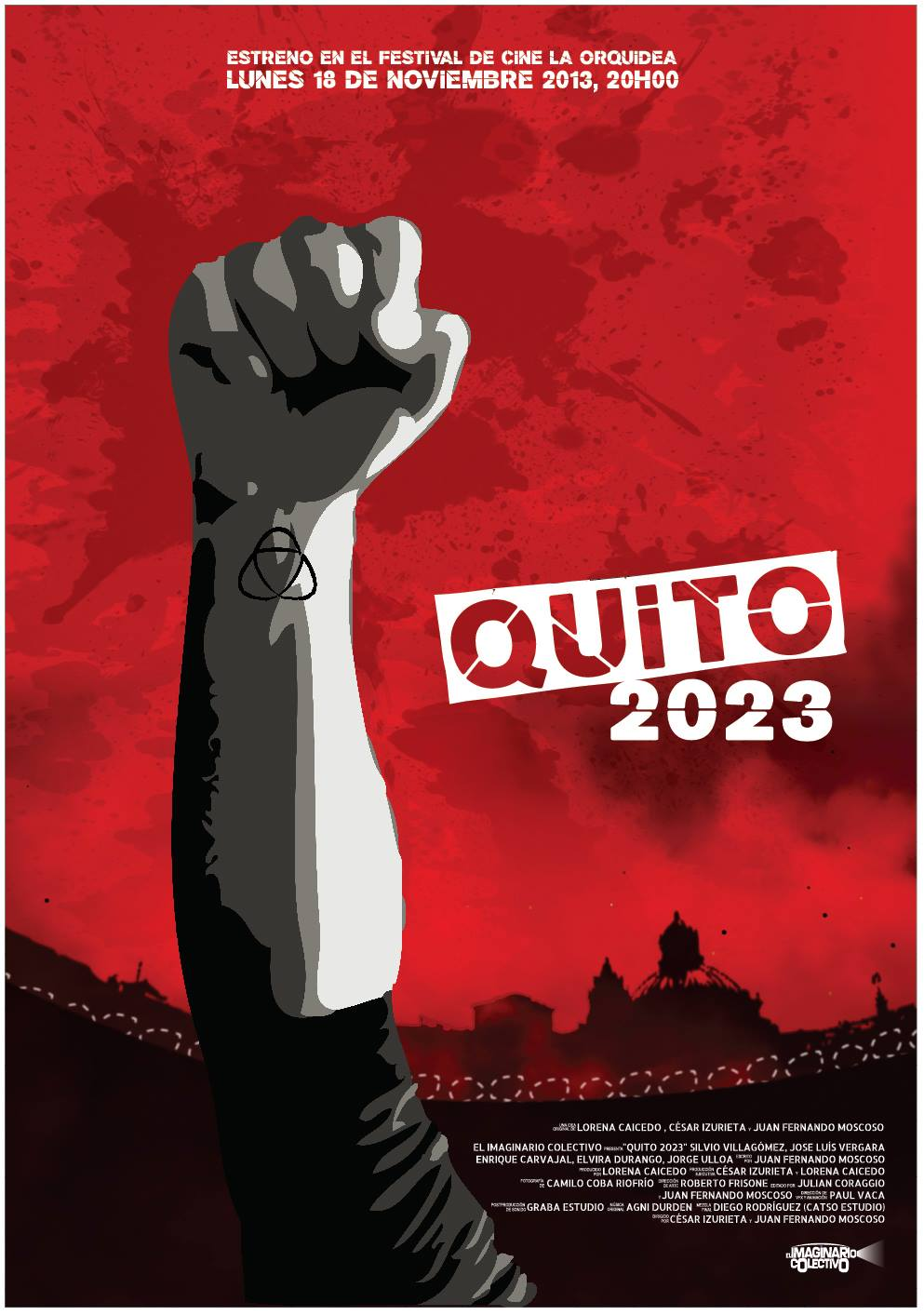 Quito 2023 premiere poster for the La Orquidea film festival.